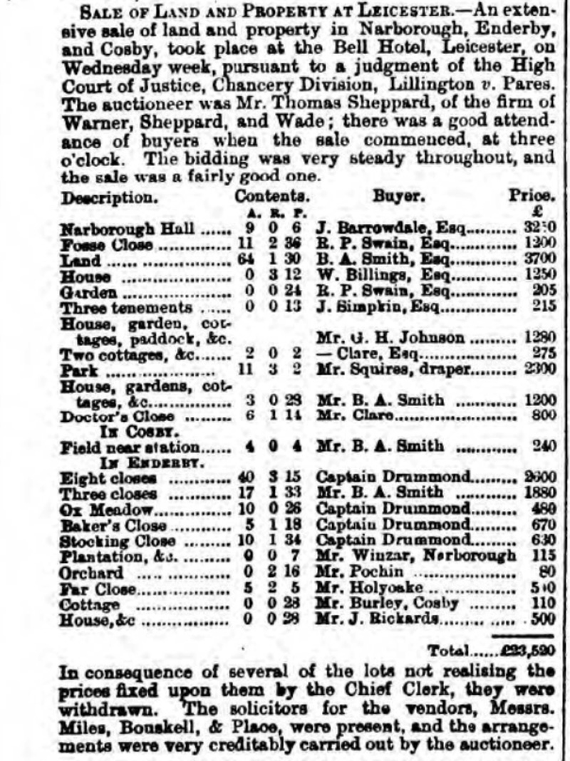 Sale of Narborough Hall, Leicester in 1880